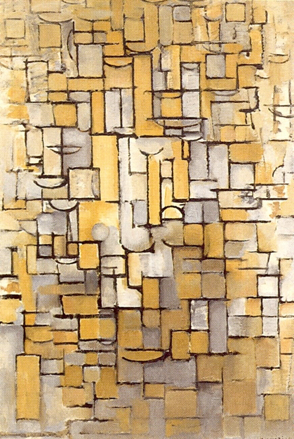 Compositie XIV